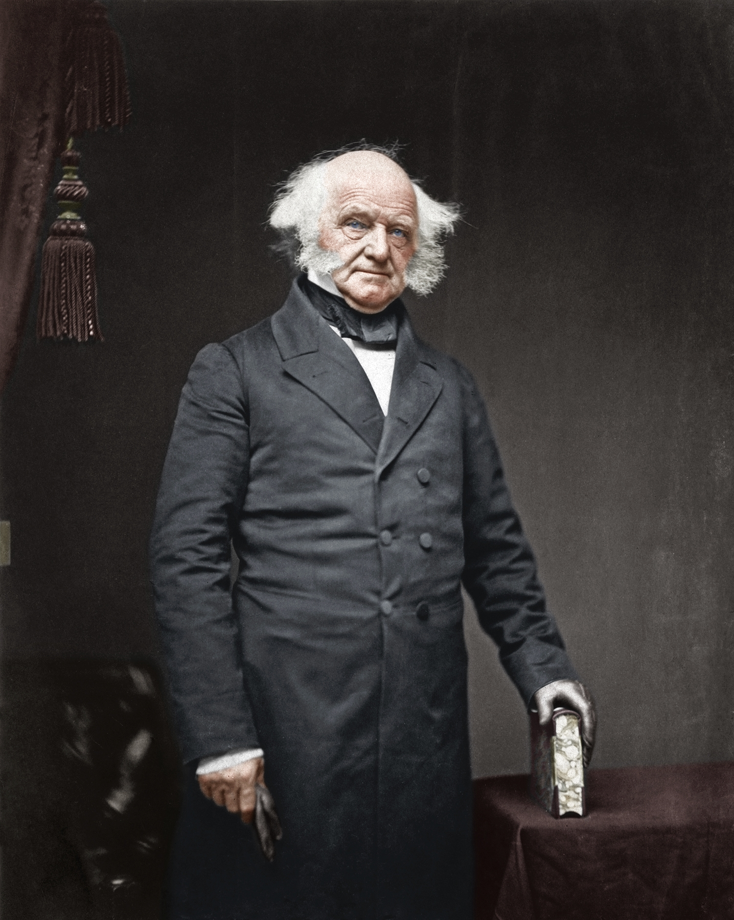 Colorized portrait of Martin Van Buren